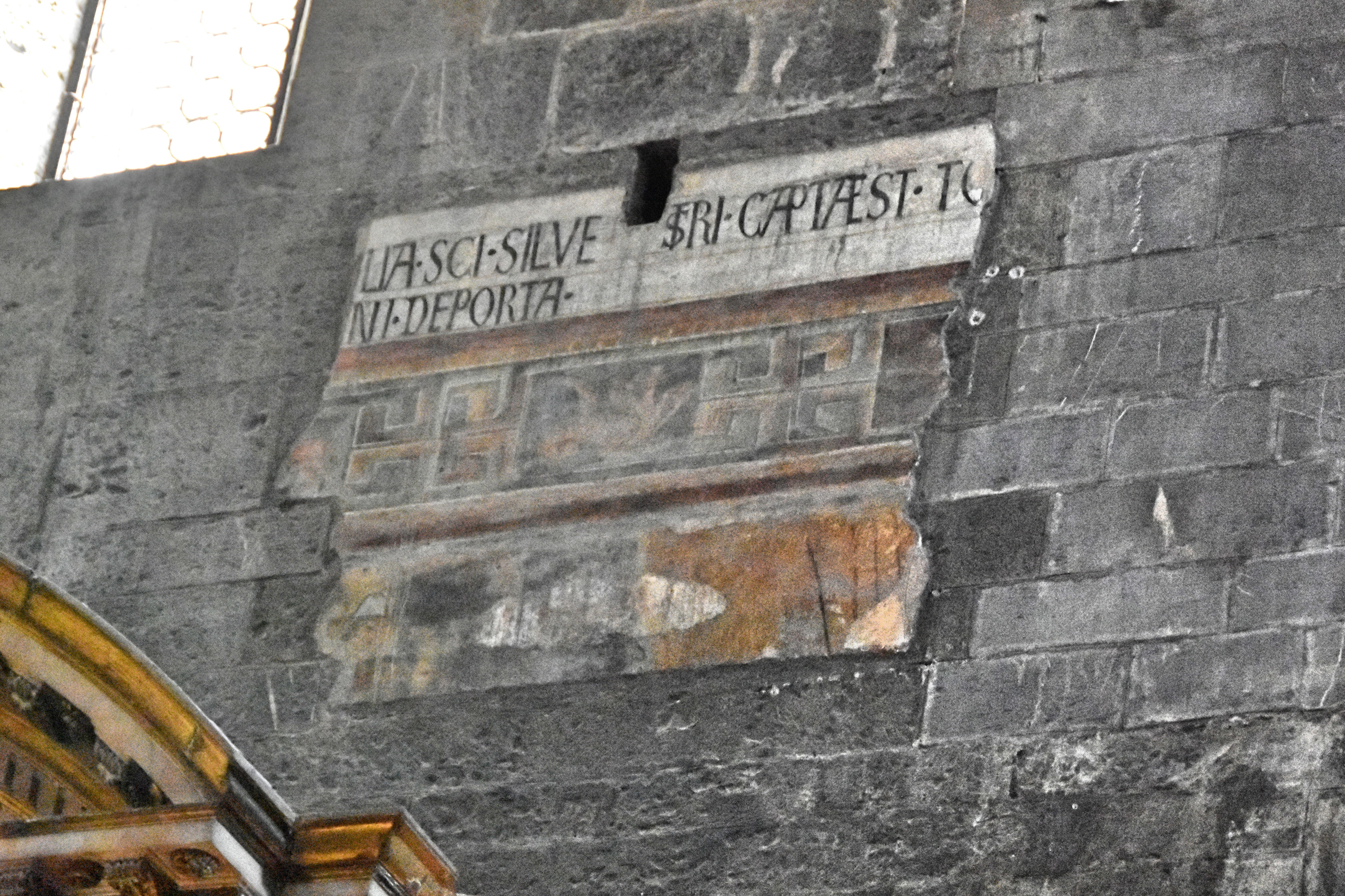 Genoa Cathedral Wall paintings related to the conquest of Tortosa